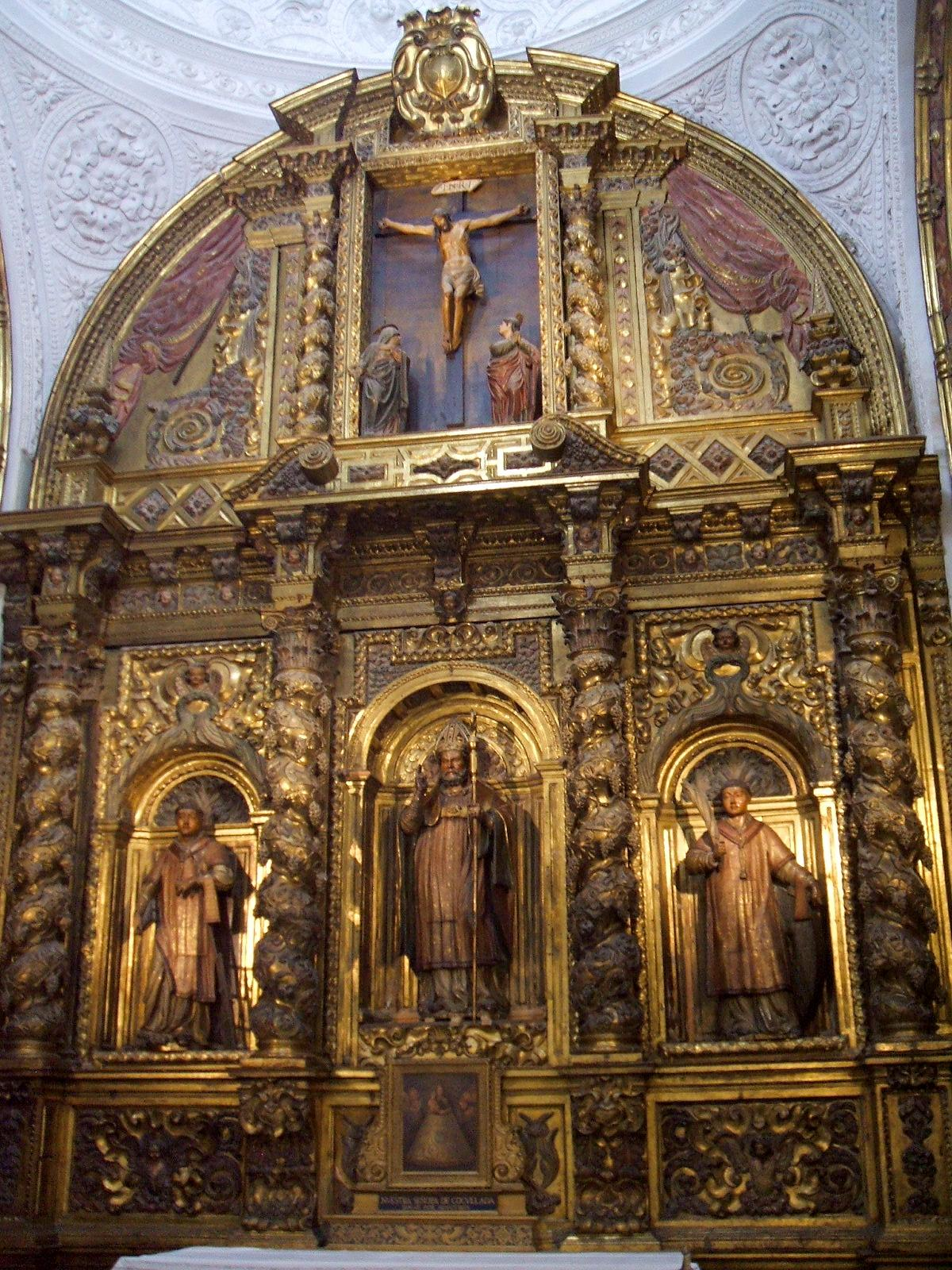 Retablo barroco de la Capilla de San Valero, en la Catedral del Salvador (La Seo) de Zaragoza (Aragón, España)